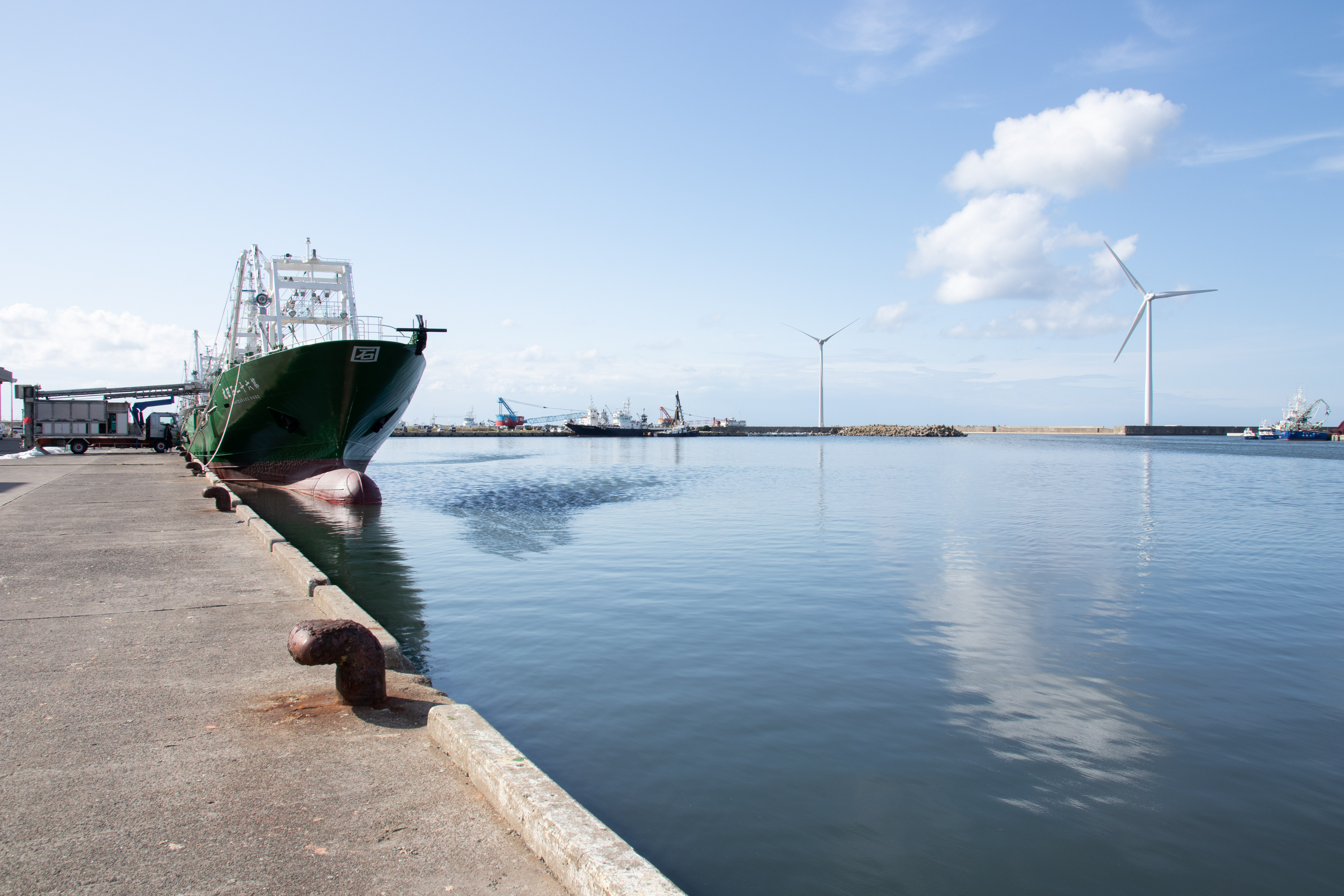 Hasaki fishing port, Kamisu City, Ibaraki, Japan